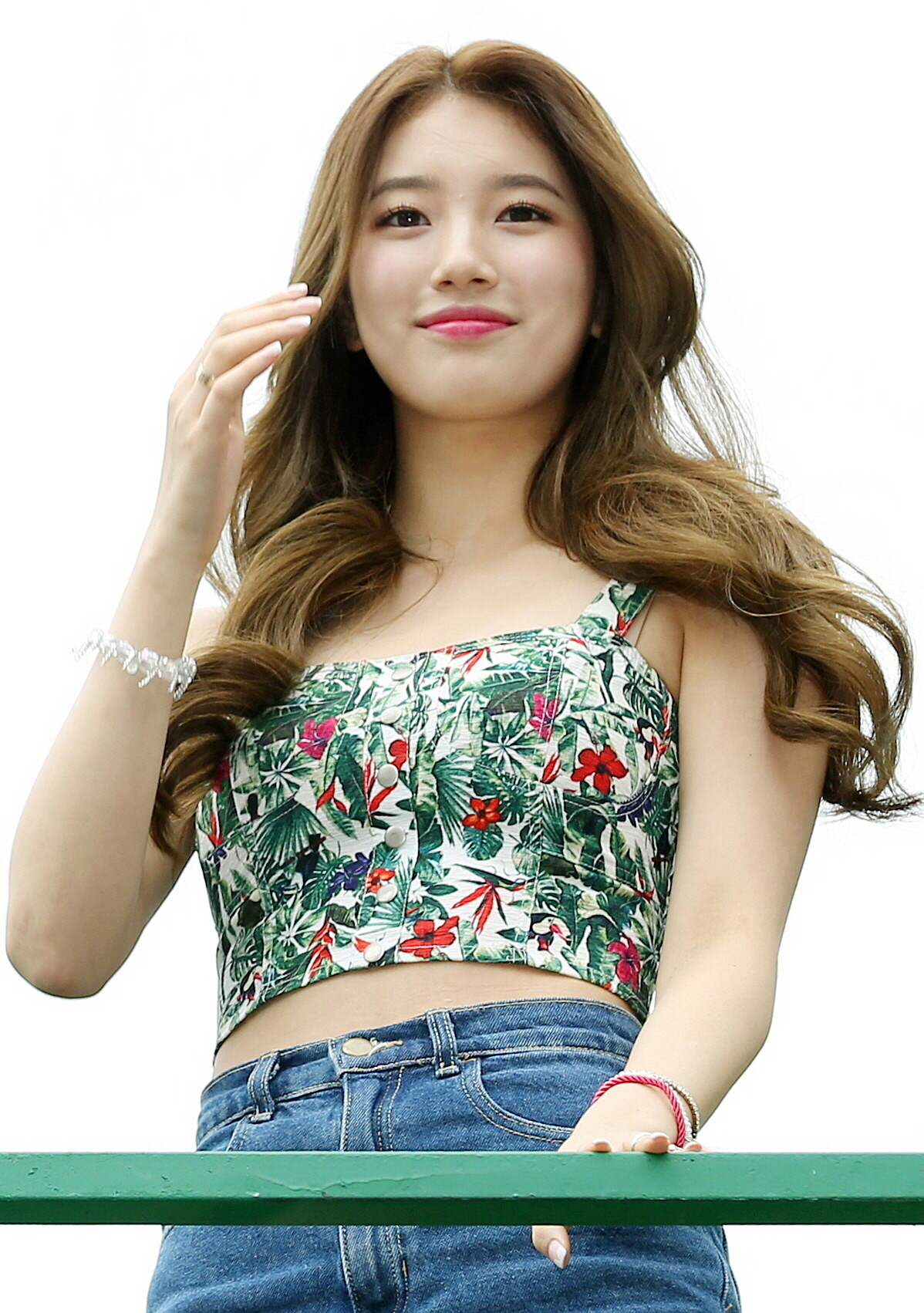 Suzy, from the popular girl group Miss A, completes the official starting countdown and announces the opening of the 2nd Sinchon Water Gun Festival on July 26, 2014